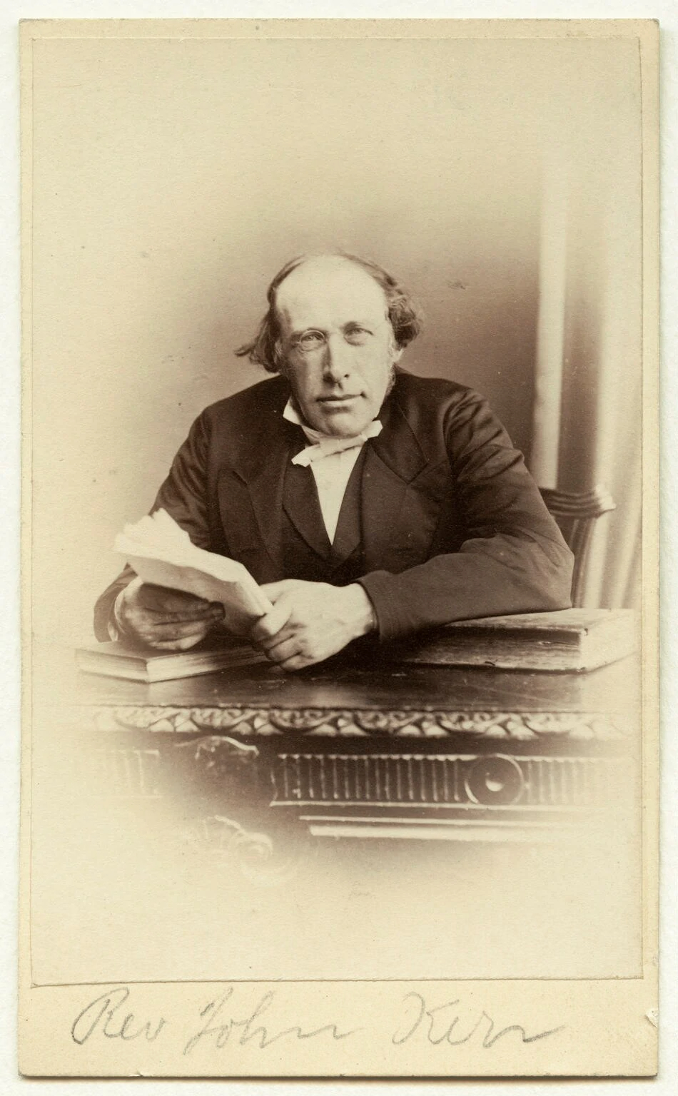 Photographic portrait of John Kerr, physicist